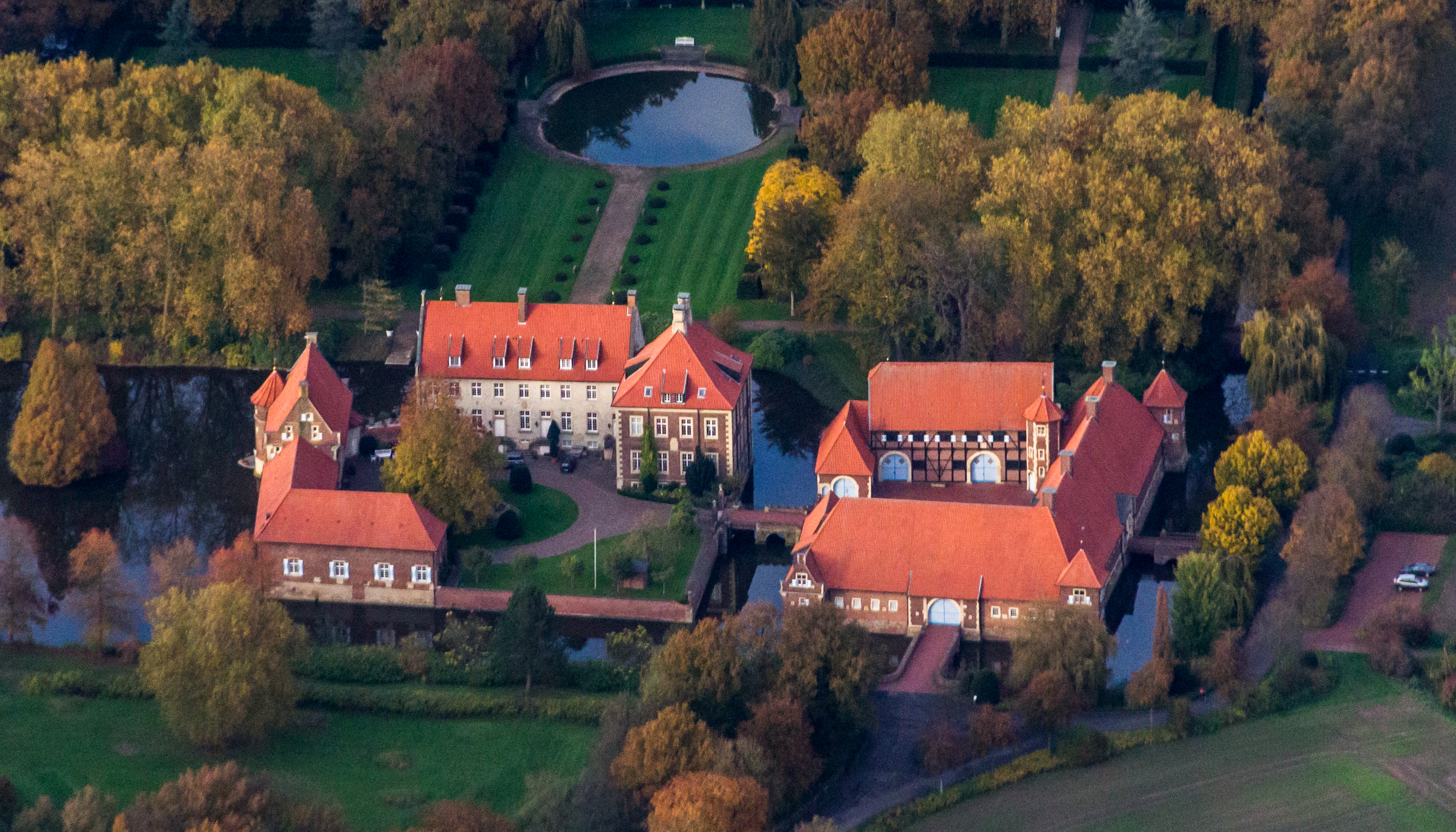 Borg Manor, Rinkerode, Drensteinfurt, North Rhine-Westphalia, Germany